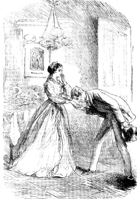 Mr Flegeby visits Mrs Lammle.